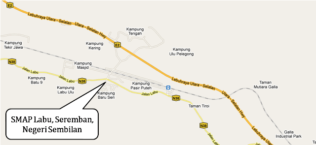 A PICTURE OF SMAPL'S MAP